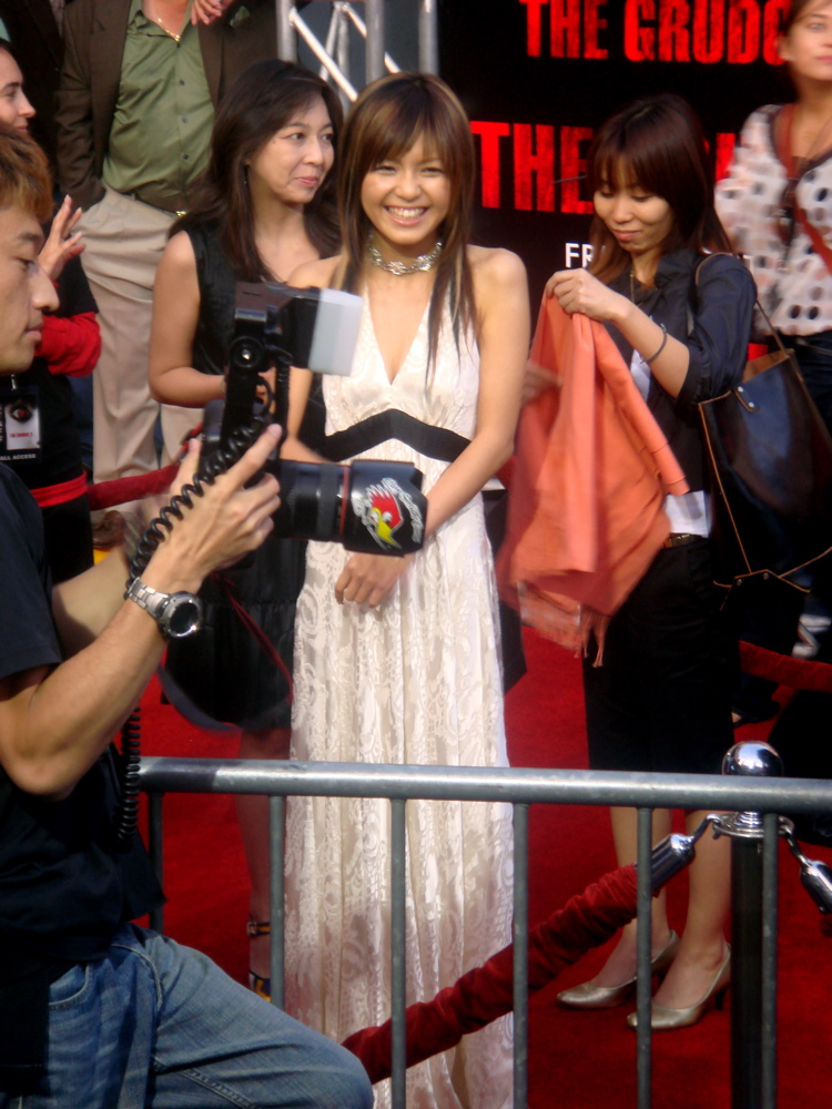 Misako Uno at the GRUDGEA premiere in 2006.